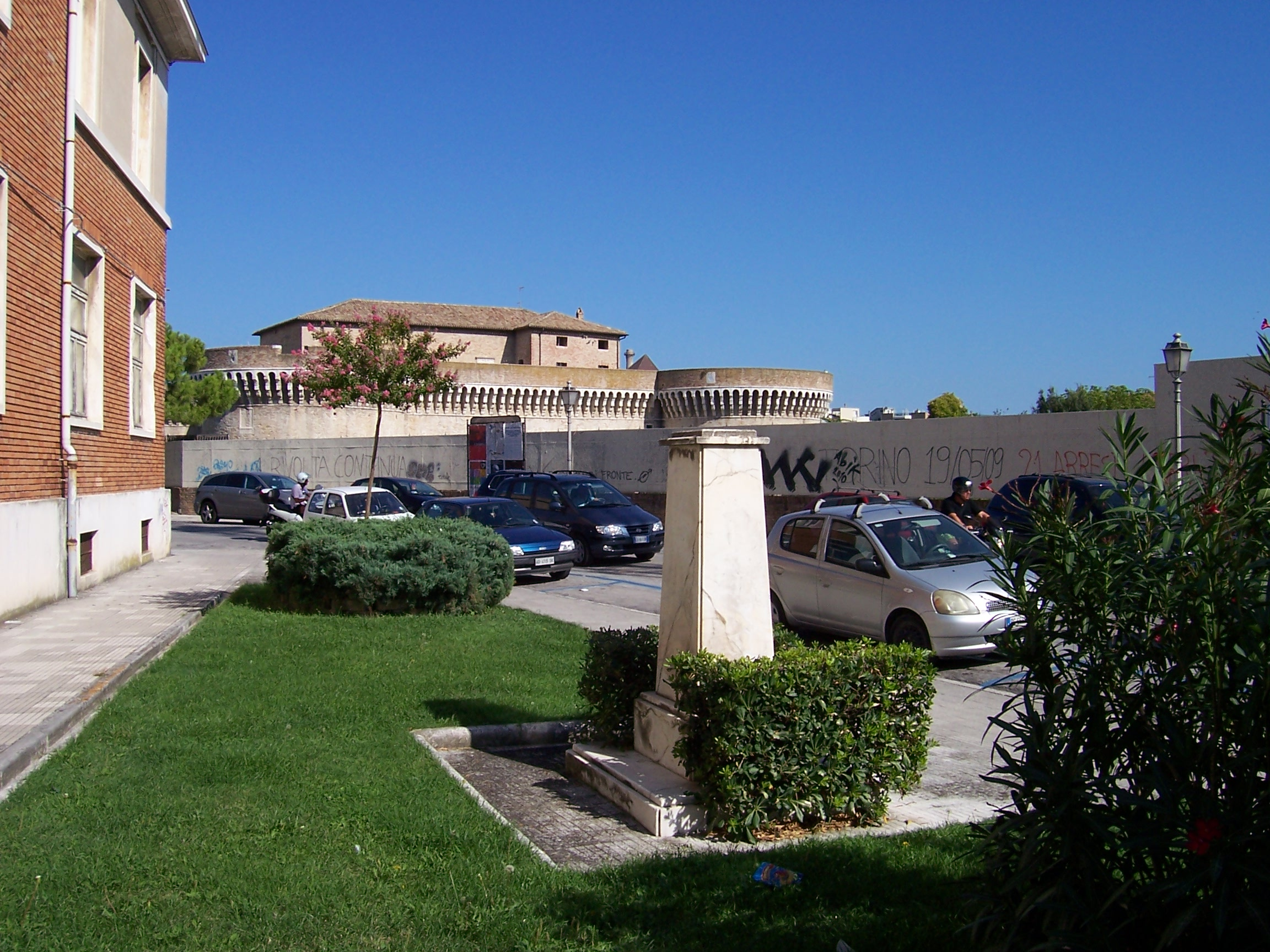 Monument of Girolamo Simoncelli Senigallia (AN) Italy